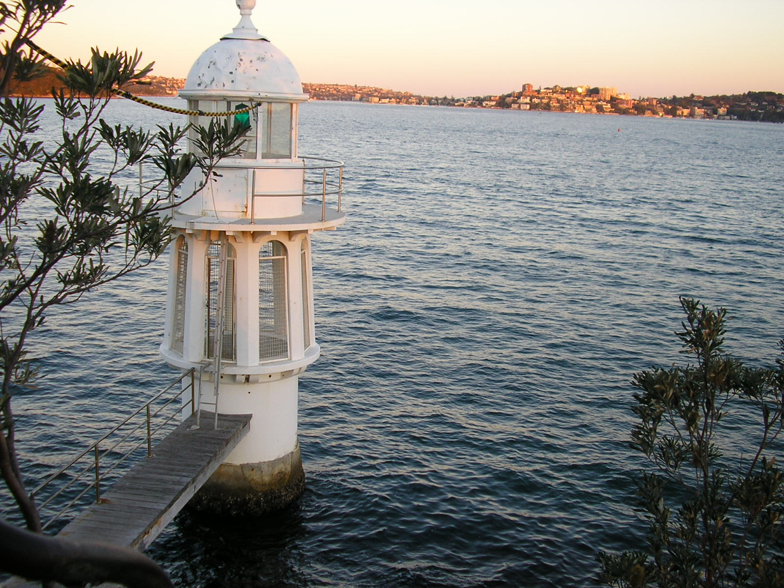 Robertson Point Light, in Sydney Harbour